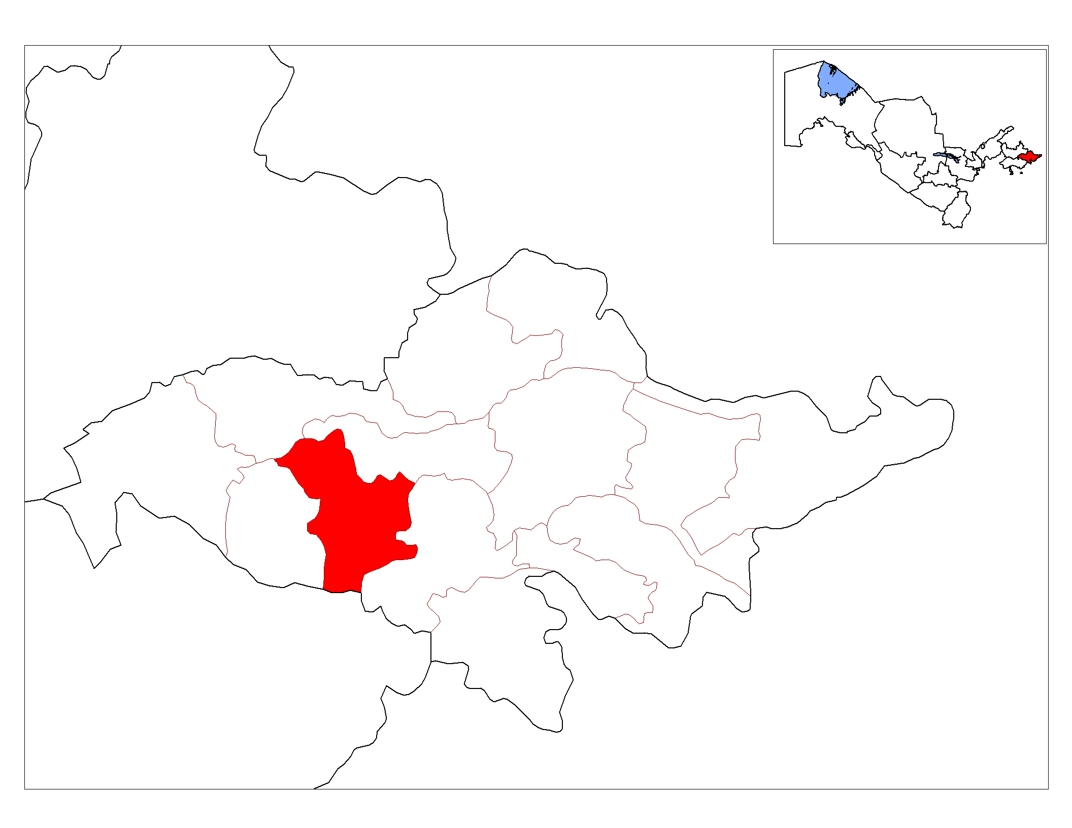 Location of Shahrixon District in Andijon Province